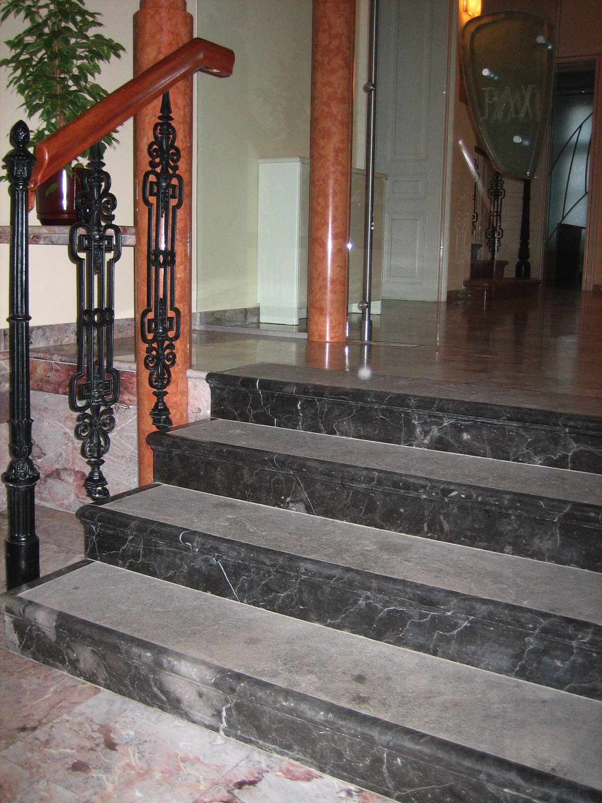 Staircase of Roman Catholic Archbishopric palace in Belgrade. Former Austro-Hungarian embassy in Serbia. Place where the russian ambassador Nikolay Hartvig died after he heard of the ultimatum which was sent by Austria to Serbia on July 23, 1914.